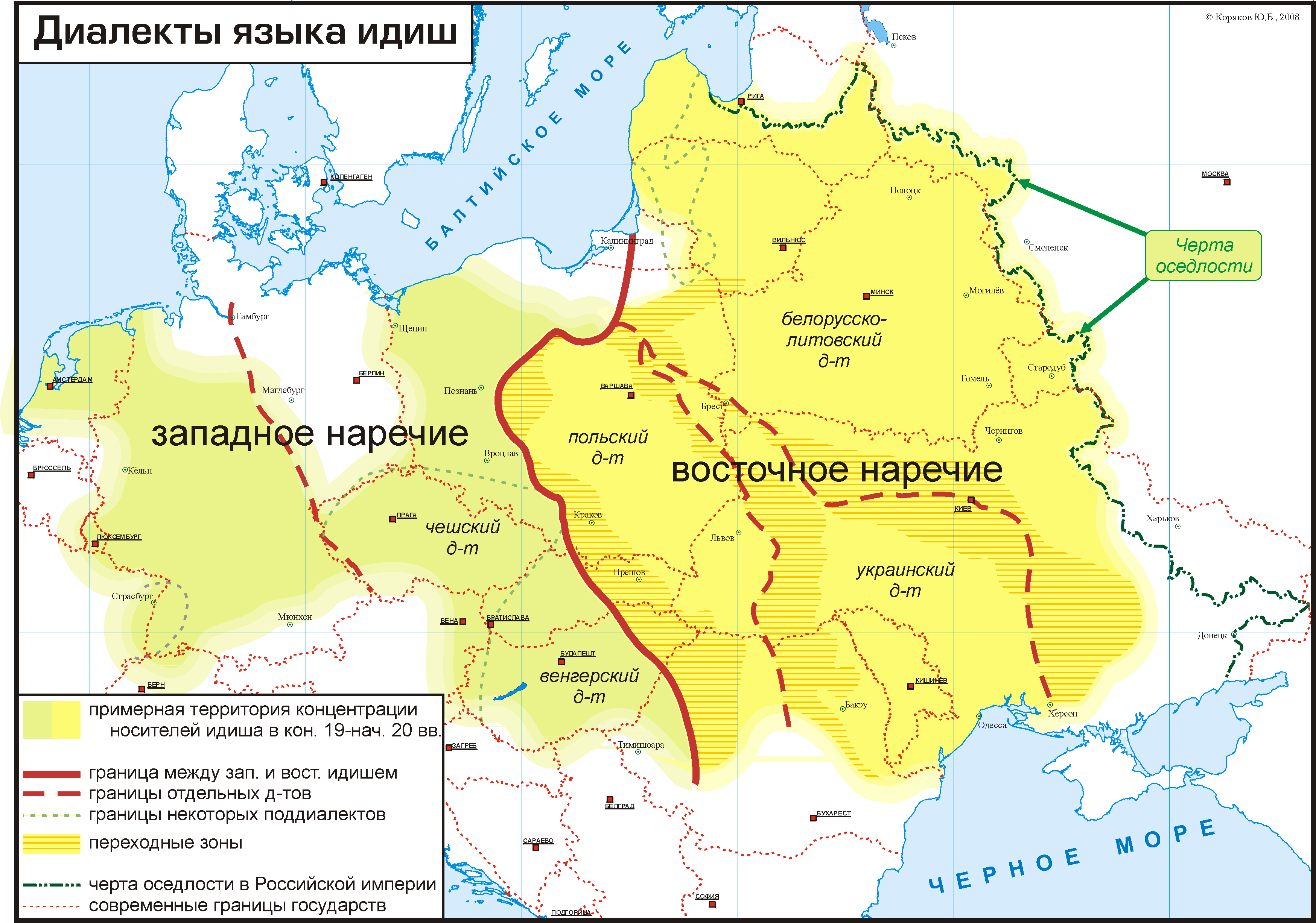 Map of traditional dialects of Yiddish (in Russian)